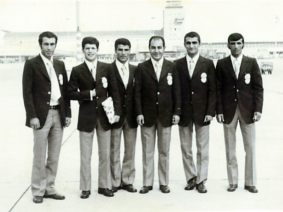 Iran national boxing team in 1972 olympics games in Munich